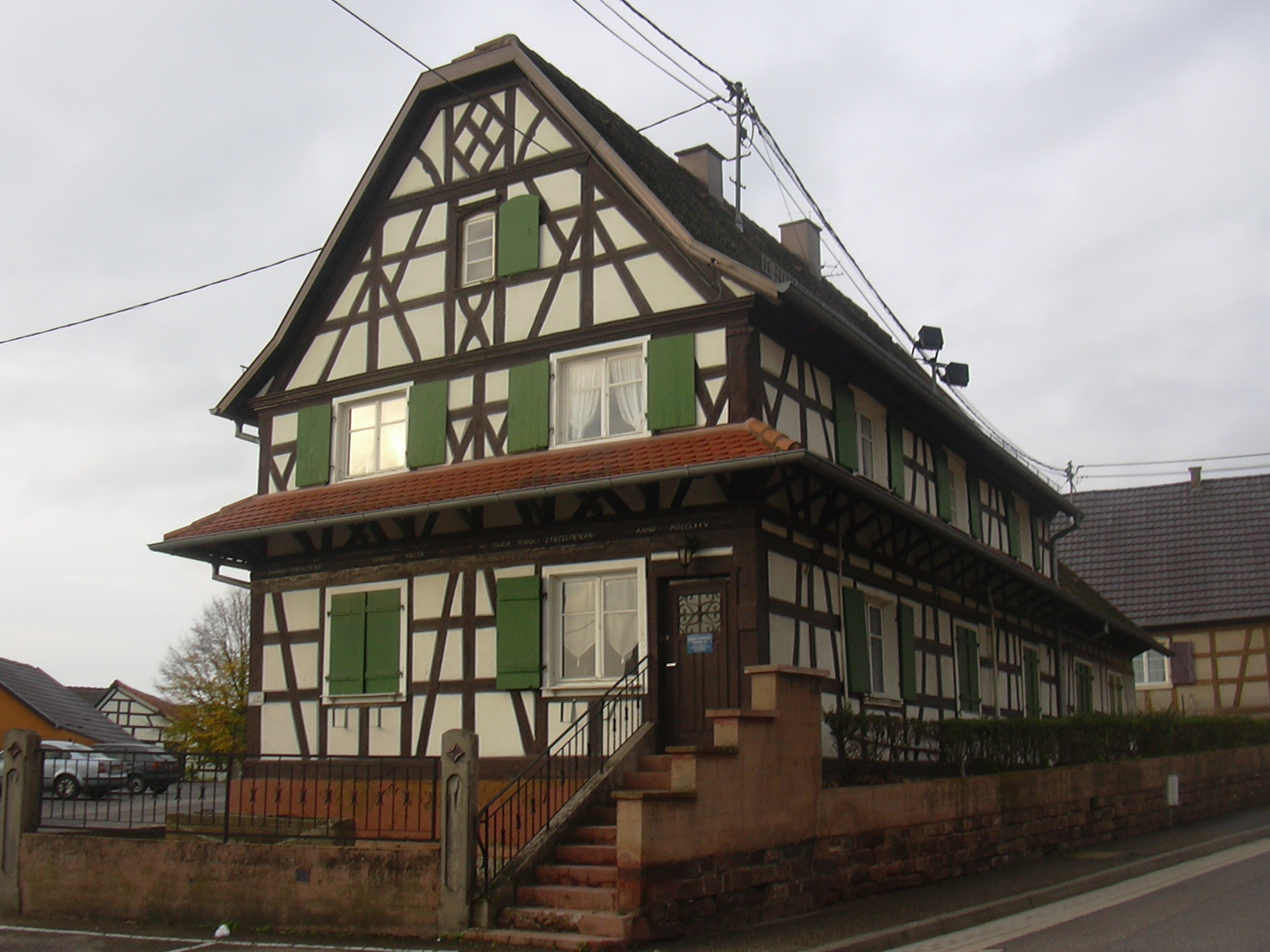 Soufflenheim, half-timbered house (1775)